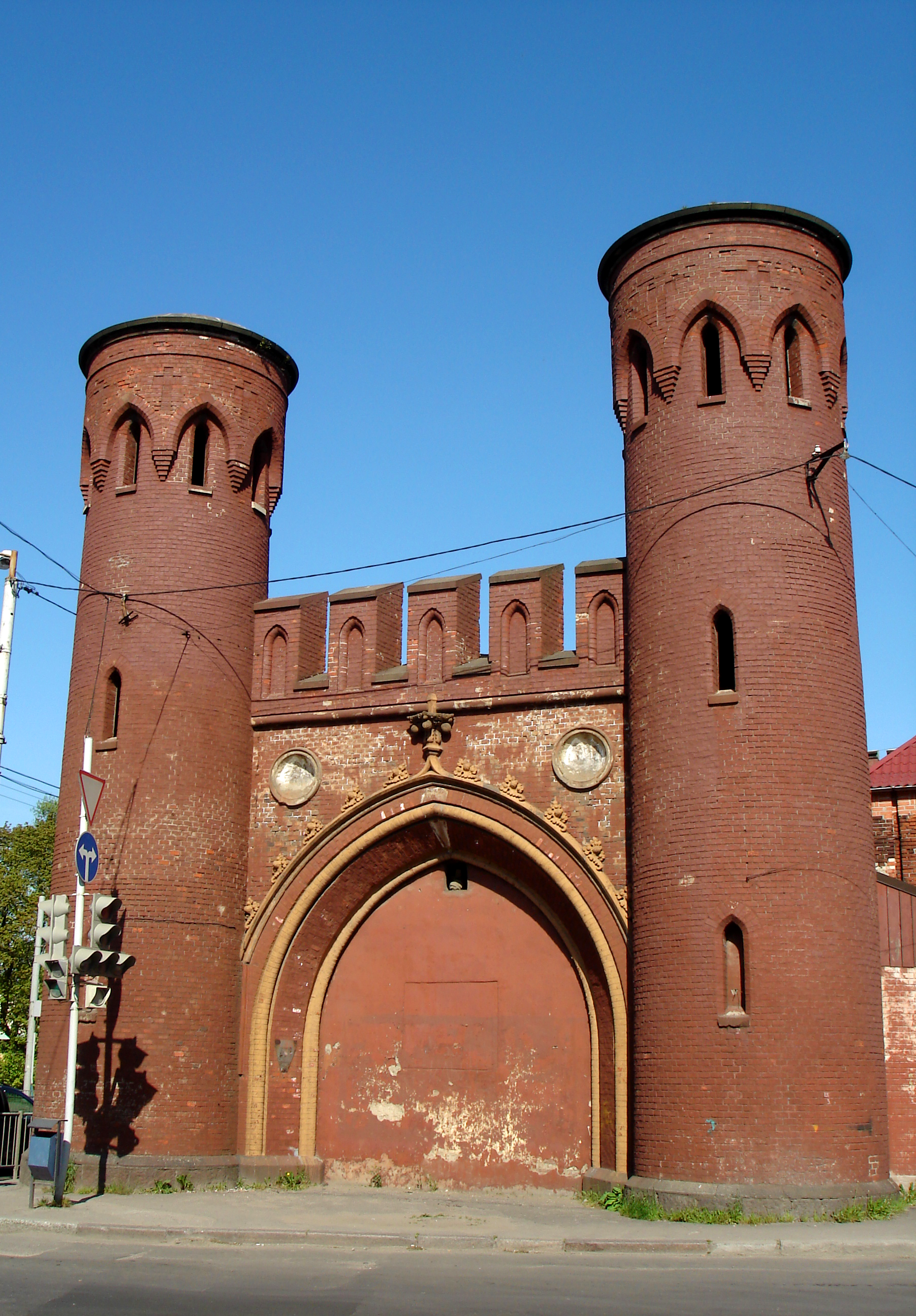 Russian Federation: Sackheim gate in the east of Kaliningrad